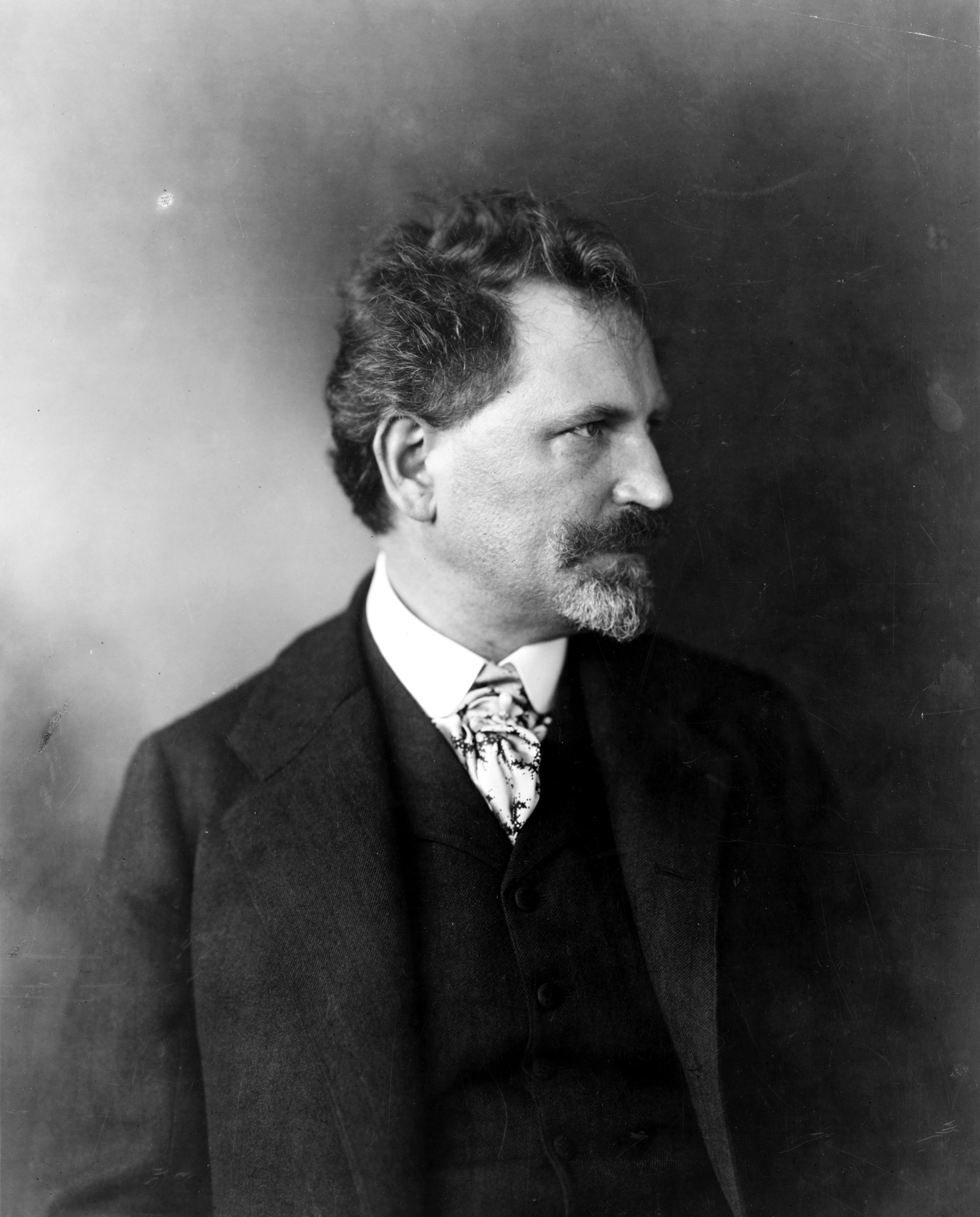 Alfons Mucha, half-length portrait, facing right.